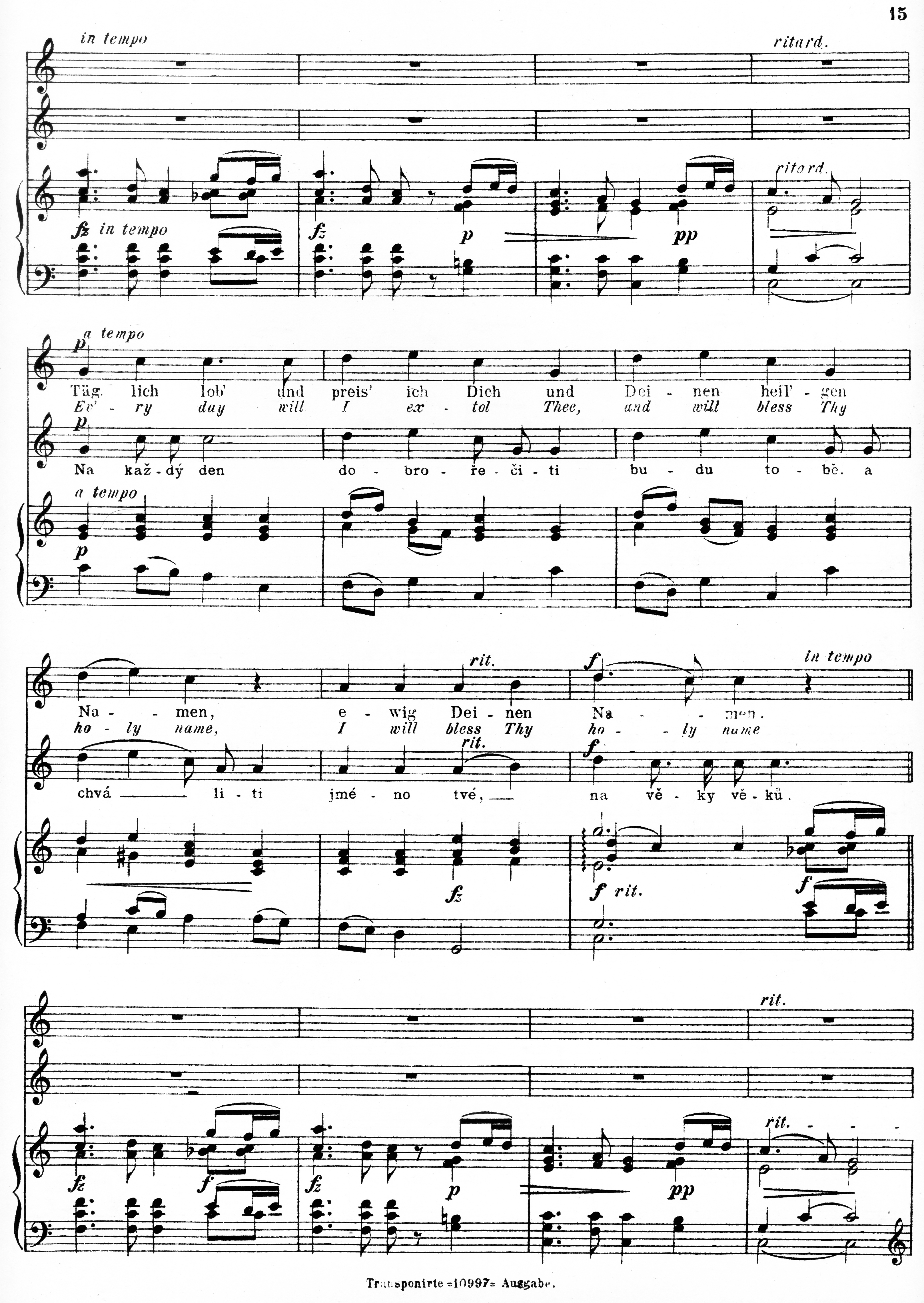 Antonín Dvořák's Biblícké Písně (Biblical Songs) Op. 99 (1884). Book 1 containing Songs 1-5. While Dvorak later orchestrated the work, this the complete original piano-and-voice version. While the massacre of the original music to fit the German and English is appalling, it does contain the original Czech, and the original music for the Czech. The German and English should probably be considered only as a translation. This is the first five songs (out of ten), the other five are printed in a second volume I have not yet tracked down. I haven't been able to find Book 2, unfortunately.